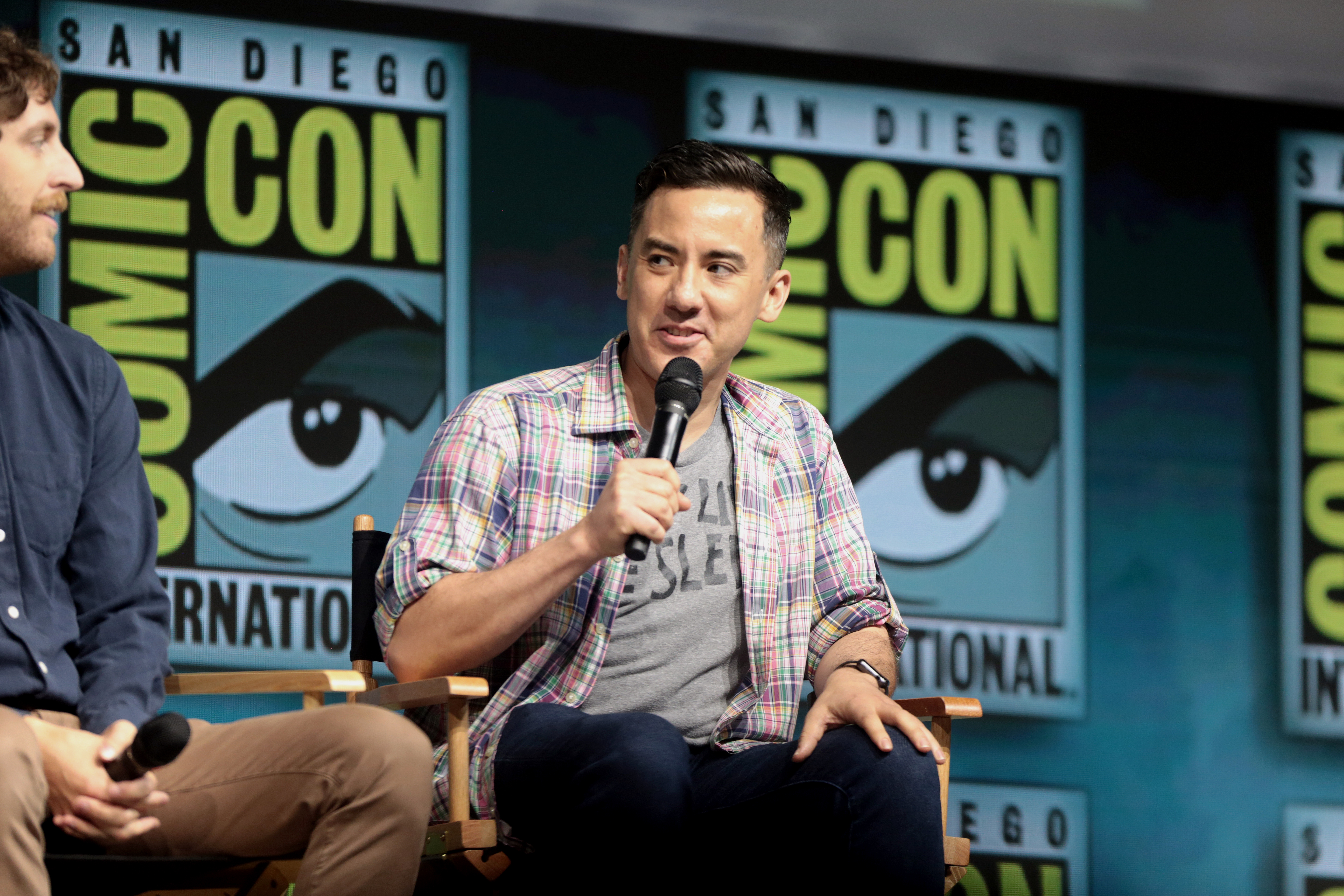 Michael Dougherty speaking at the 2018 San Diego Comic Con International, for "Godzilla: King of the Monsters", at the San Diego Convention Center in San Diego, California.